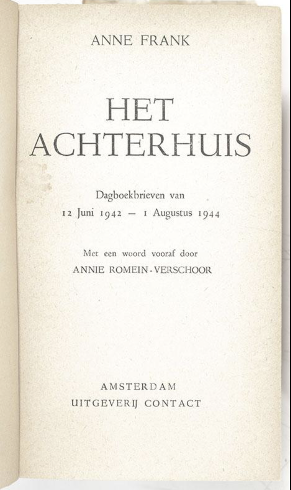 Photograph of the cover page from the book "Het Achterhuis" indicating forward by Annie Romein-Verschoor